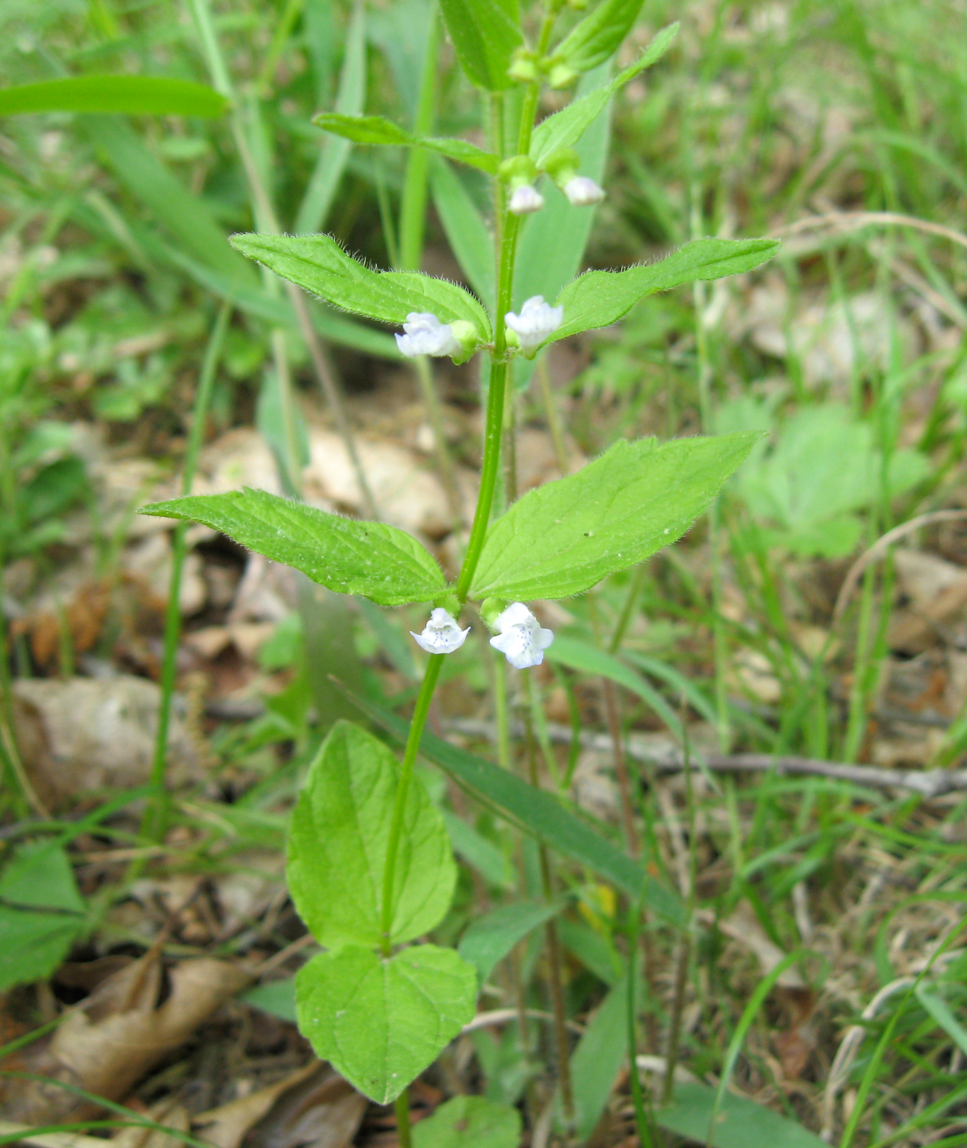 Scutellaria nervosa. Woodland opening near Crooked Creek Barrens, Lewis County, Kentucky.